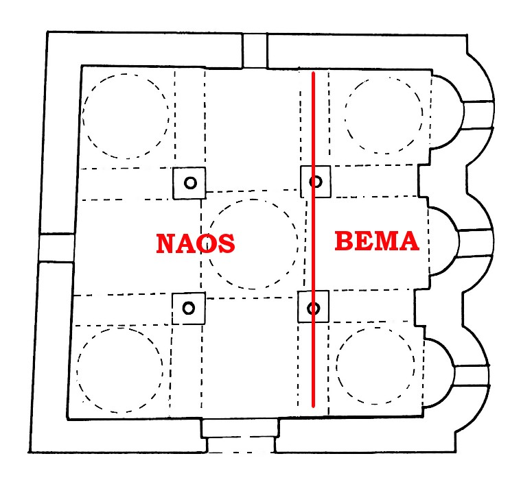 Own work. Based on cross-in-square plan of the Cattolica, Stilo, A.J. Wharton, Art of Empire (University Park, 1988), Fig 5.8.